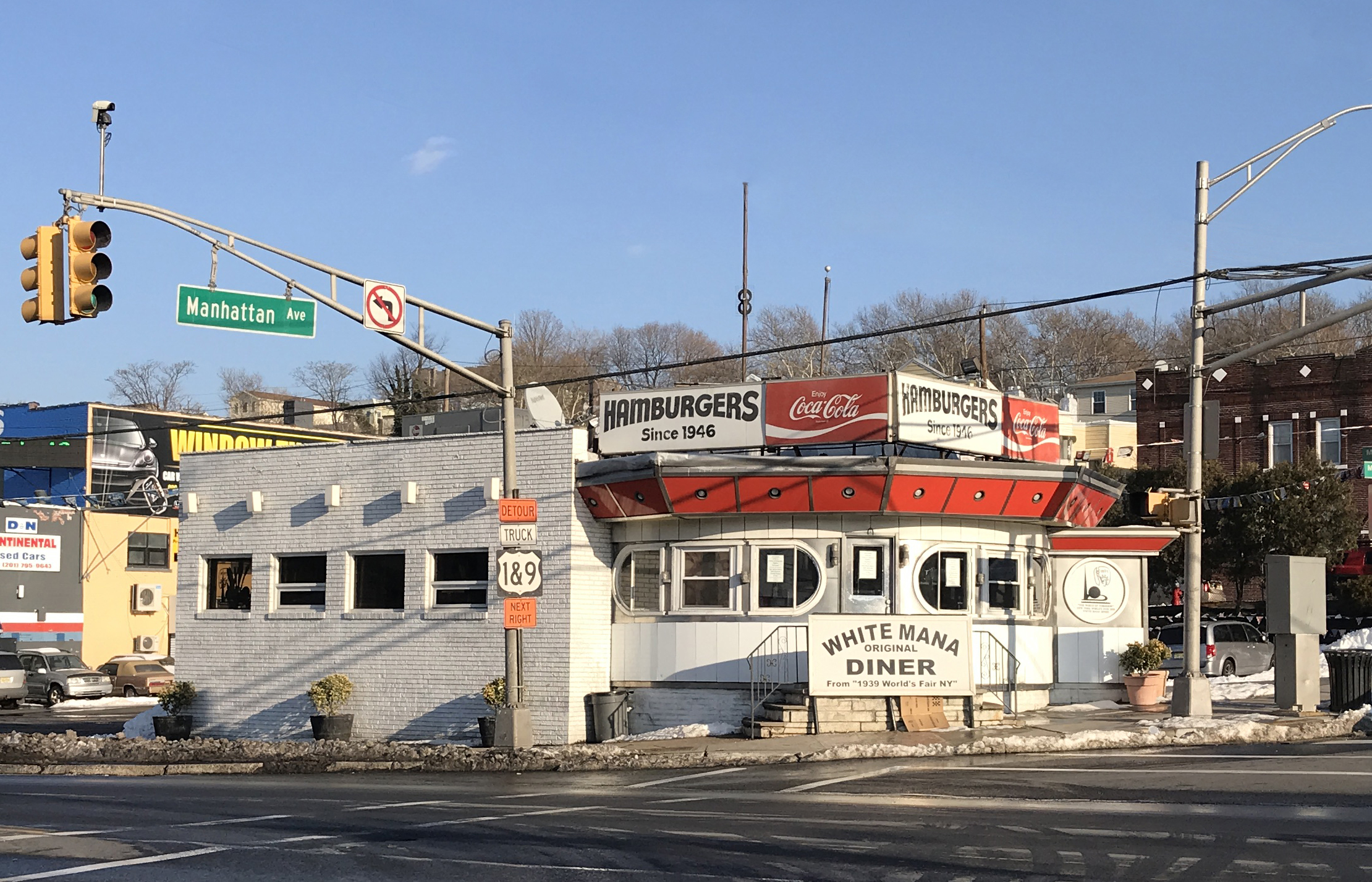 The White Mana Diner in Jersey City, New Jersey, as seen on January 9, 2018. This photo was created by Luigi Novi. It is not in the public domain, and use of this file outside of the licensing terms is a copyright violation.